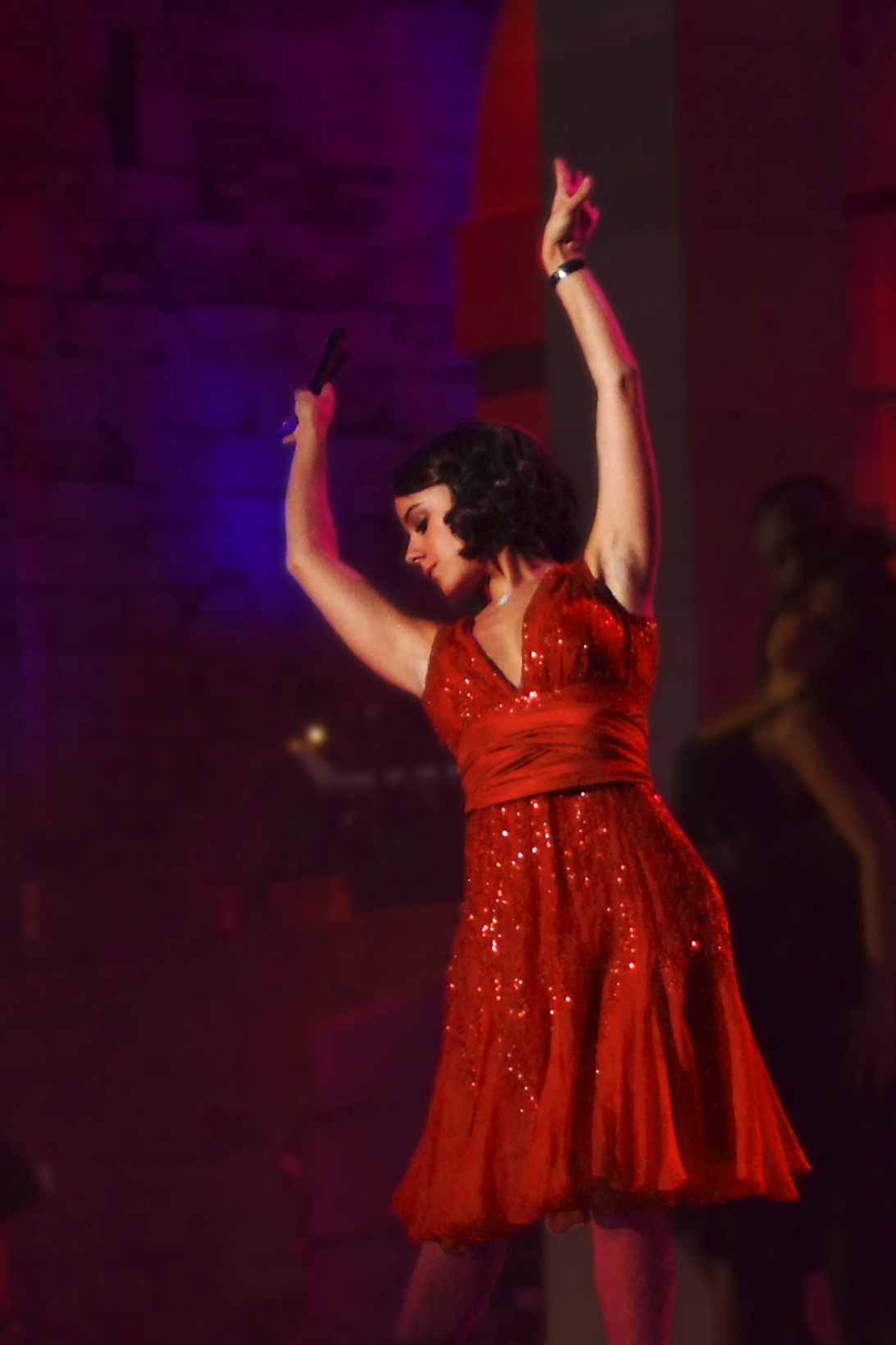 Alizée Jacotey at Les Enfoirés charity concert at Strasbourg, France, on 28th of January, 2008.